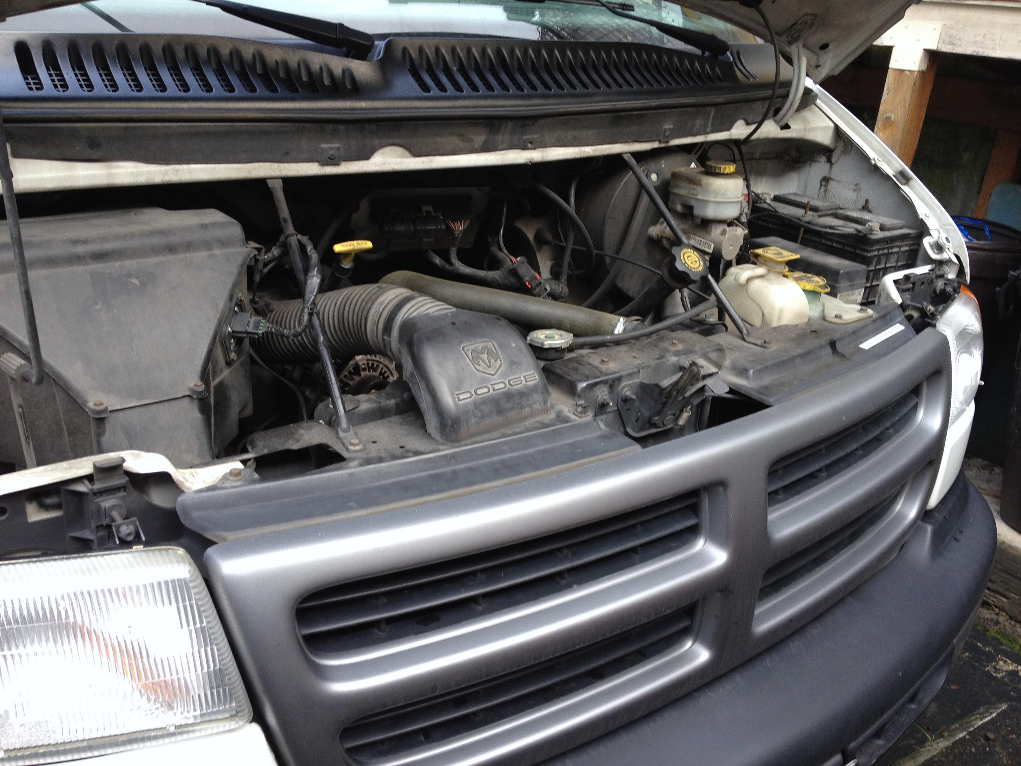 Engine bay of a 3rd generation Dodge Ram Van. I don't care what you do with this photo, I was messing with my phone.